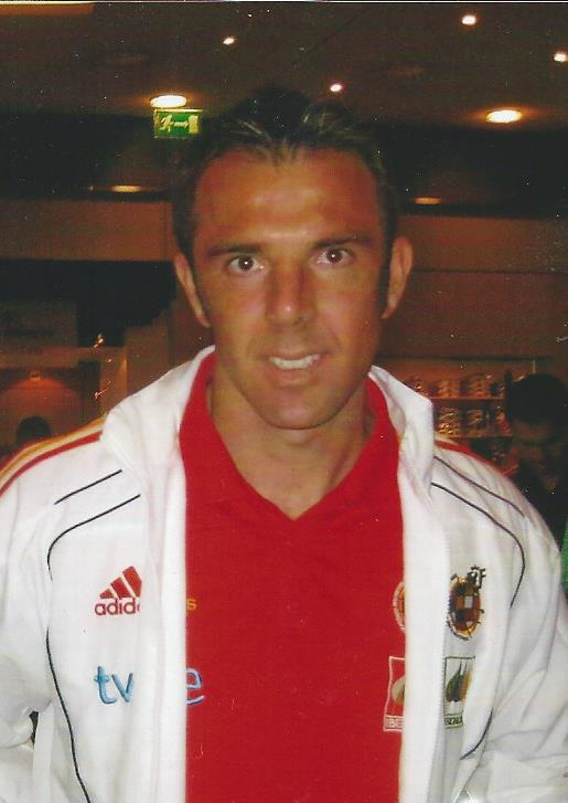 The Spanish footballer Carlos Marchena.